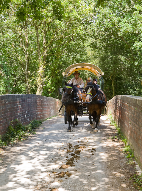 Horse and cart crossing Battramsley railway bridge. For a better view of the bridge itself see 395687.